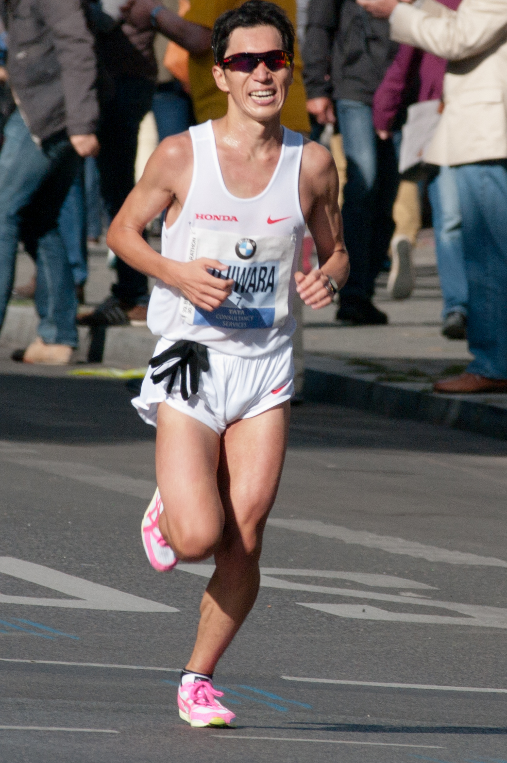 Elite runners at the Berlin Marathon 2012. Here on Bülowstraße, between Kilometers 36 and 37.